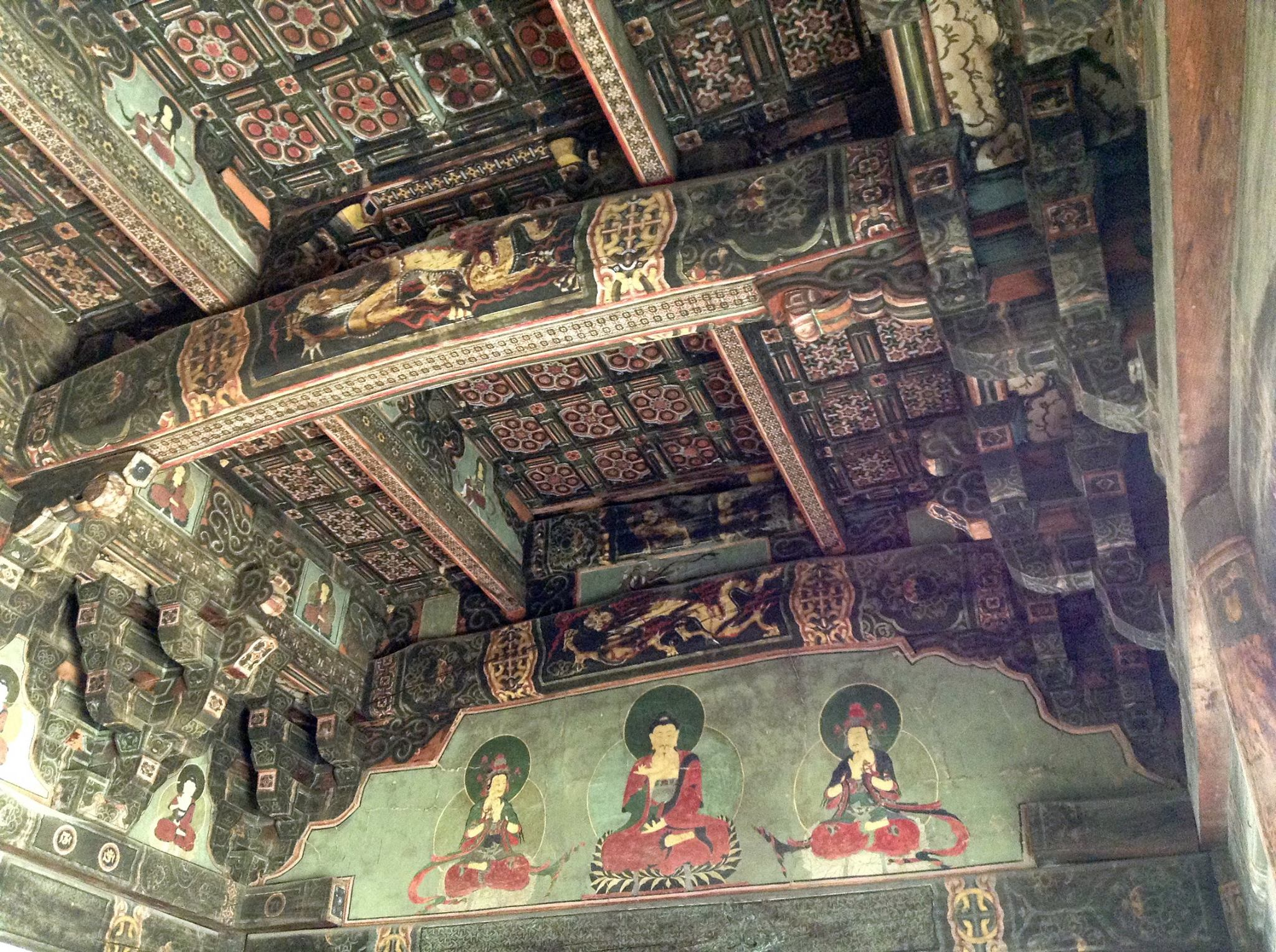 Ceiling of a hall in the Tongdo-Tempel (Tongdosa), Yangsan, South Korea